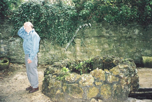 Upwey wishing well This is the correct way, evidently, to wish at the wishing well at Upwey: with your back to the well, take the cup in your right hand and throw the water into the well over your left shoulder.